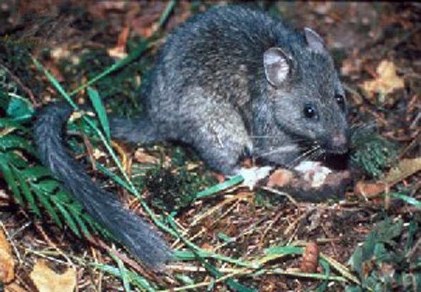 Bushy tailed North American woodrat